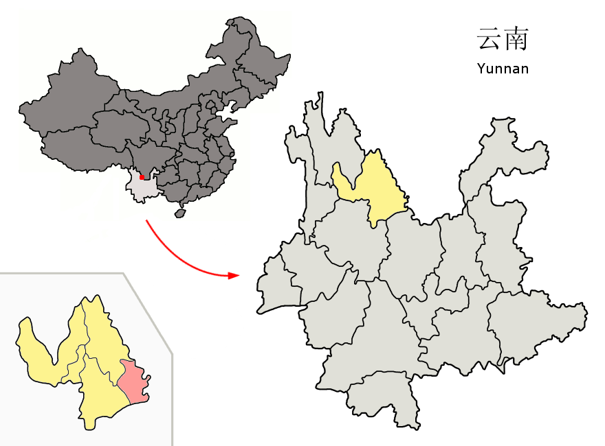 Location of Huaping County (pink) and Lijiang prefecture (yellow) within Yunnan province of China Map drawn in september 2007 using various sources, mainly : Yunnan province administrative regions GIS data: 1:1M, County level, 1990 Yunnan Counties map from